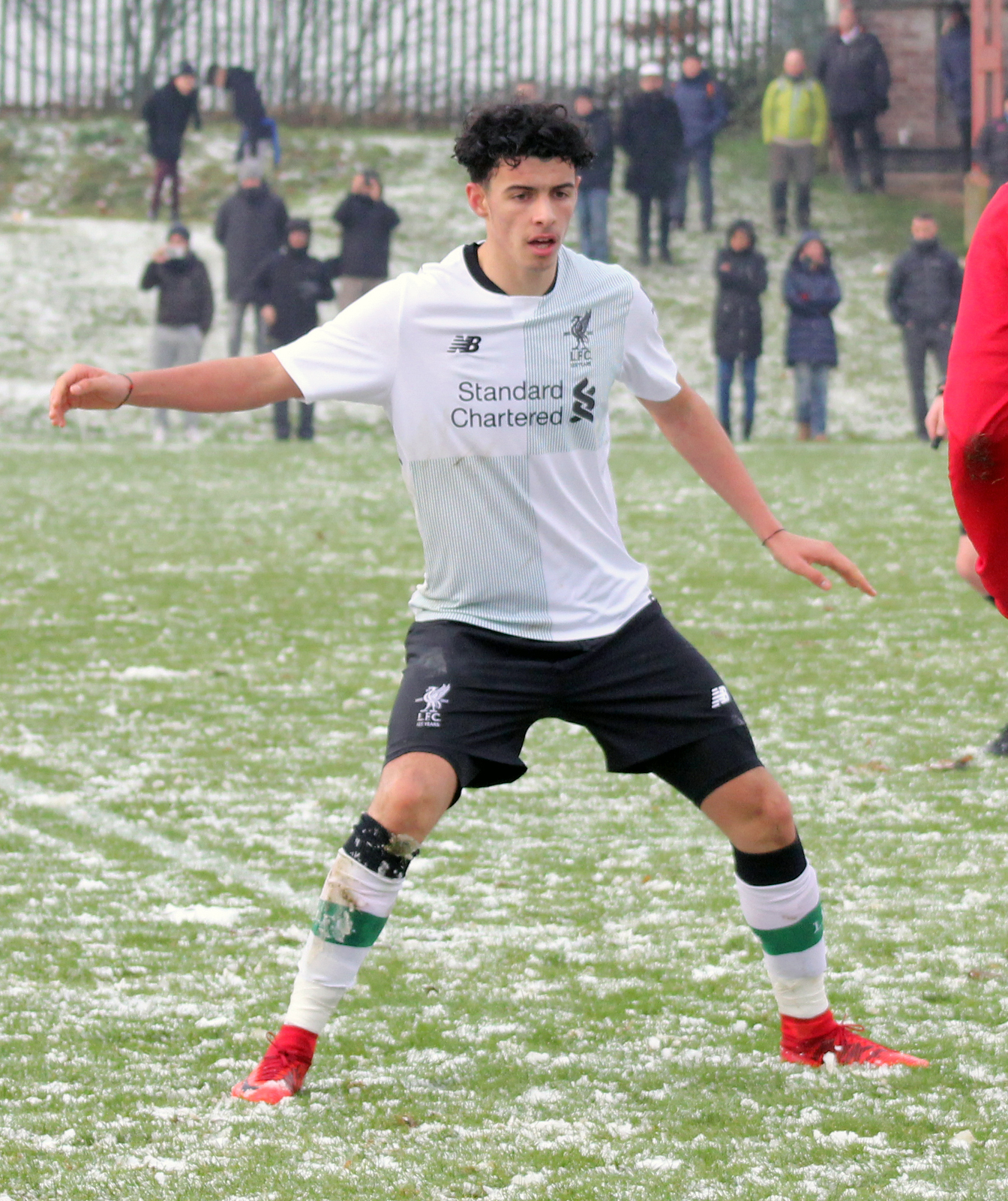 Curtis Jones during the U18 Premier League match at The Cliff, Salford, England on Saturday 9 December 2017.